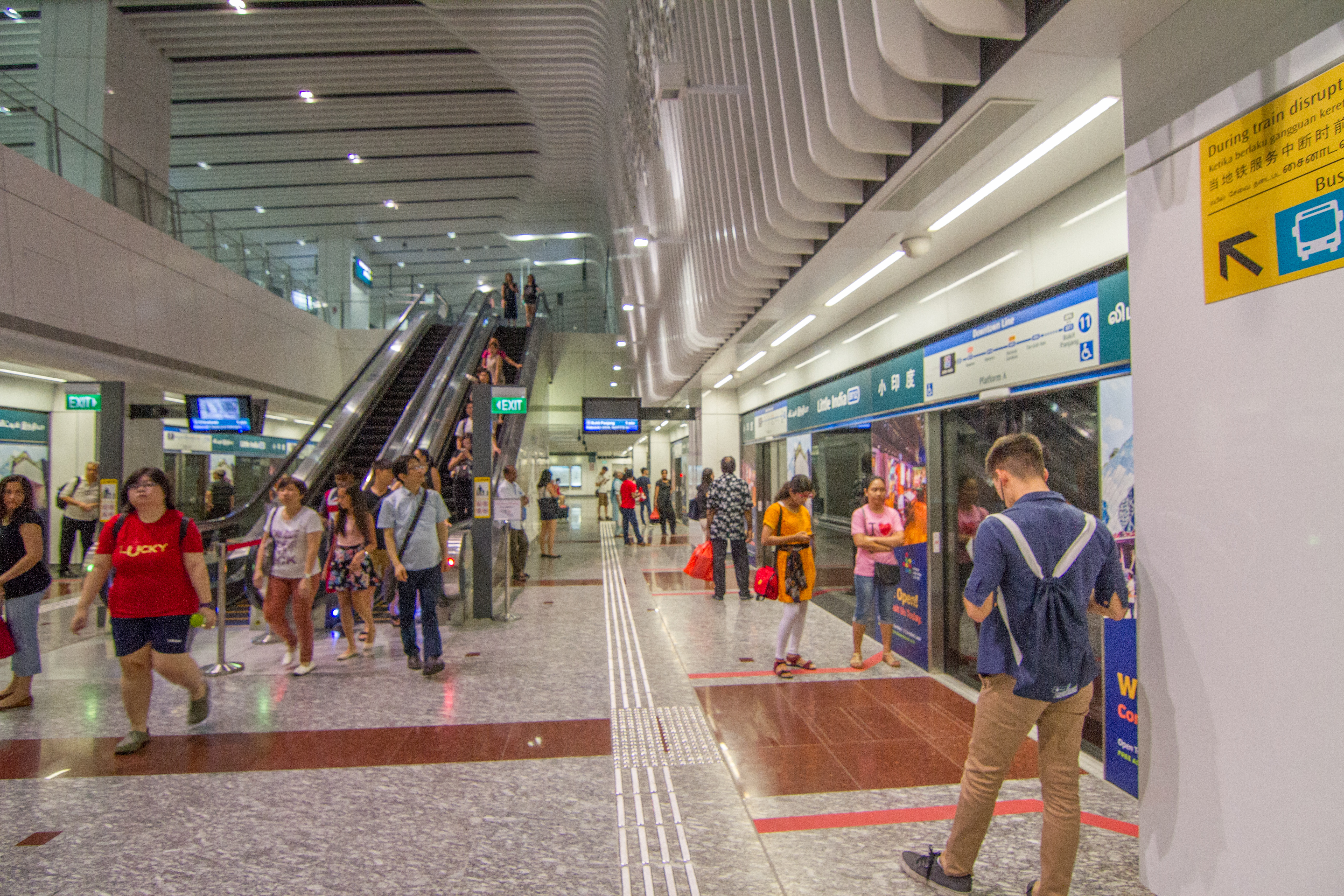 Little India MRT Station, Singapore